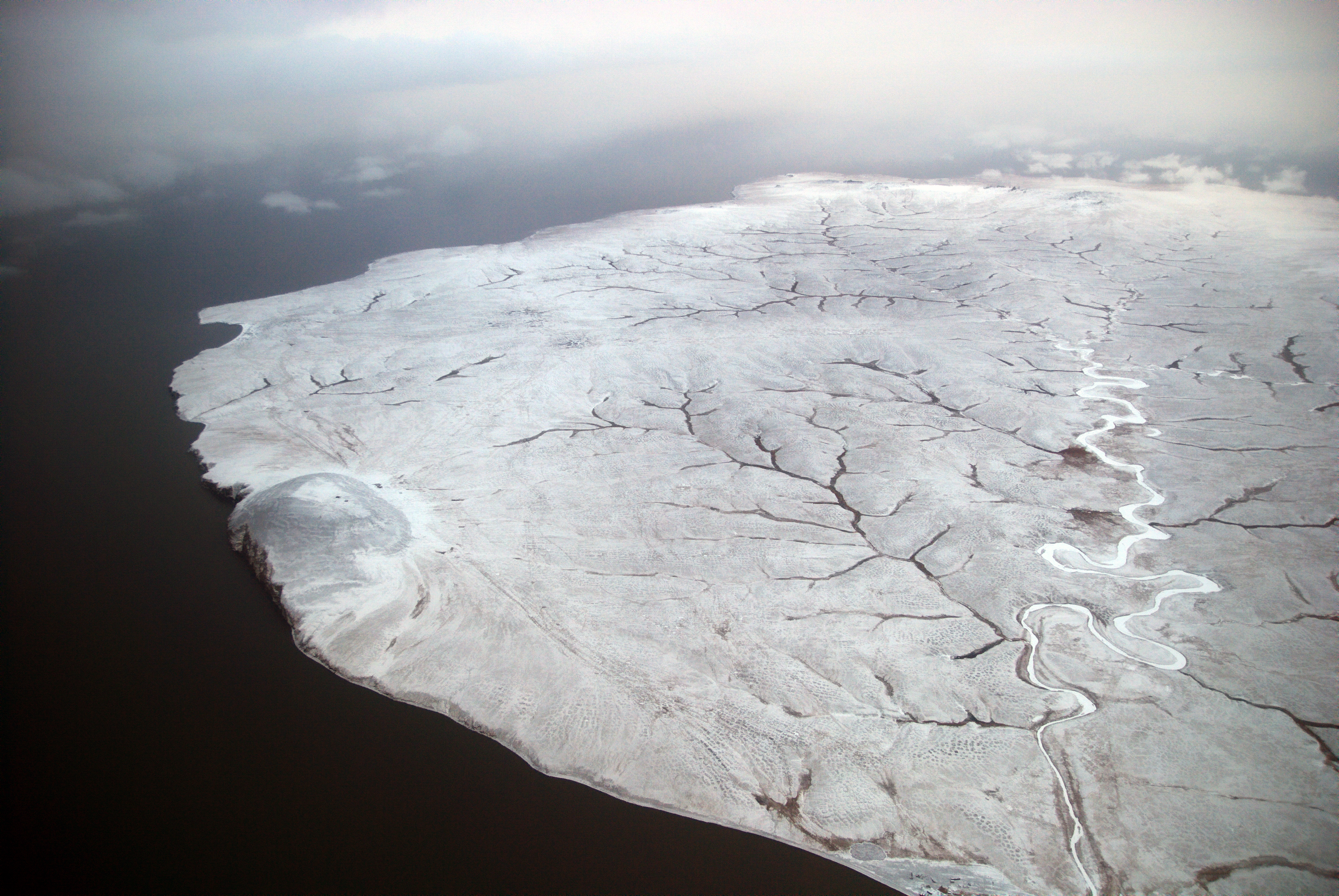 Bolshoy Lyakhovsky Island (part of Lena Delta resource reserve), Kigilyakh Peninsula with Malakatyn River